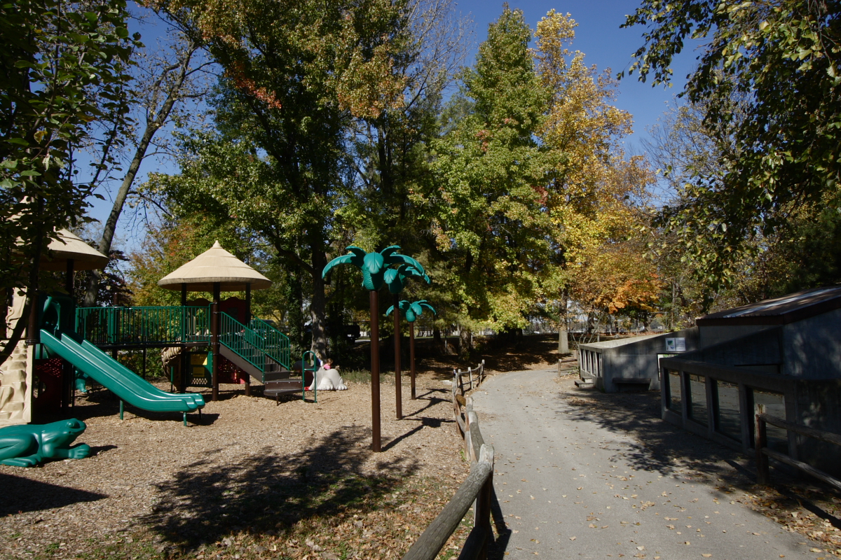 Henson Robinson Zoo Playground, Springfield, Illinois